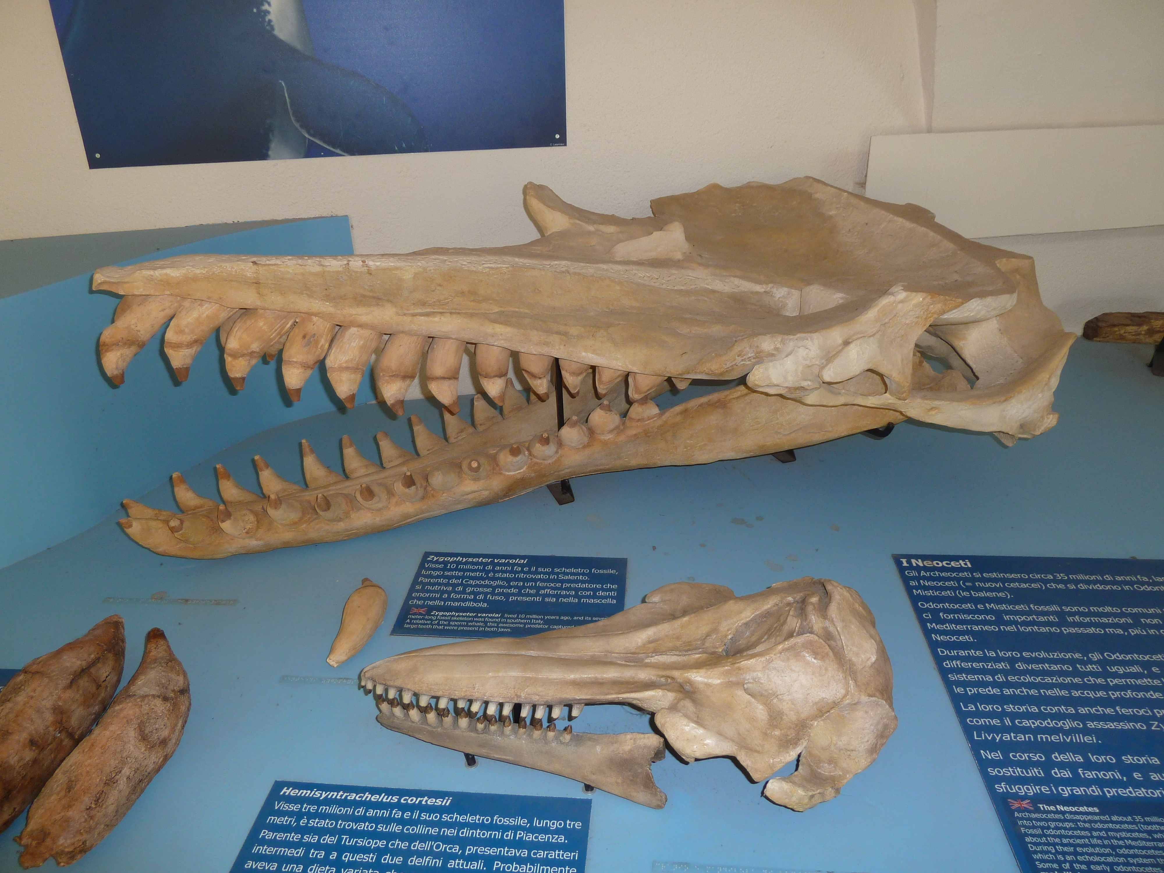 Zygophyseter varolai Bianucci & Landini, 2006, and Hemisyntrachelus.